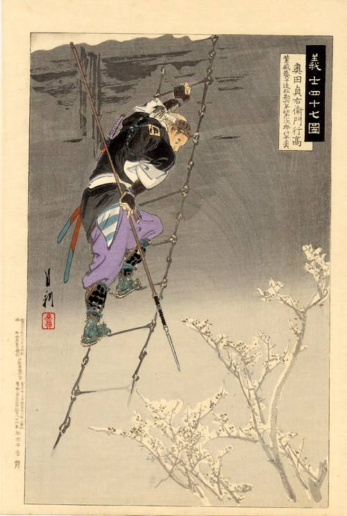 Ronin are masterless samurai. Chushingura is the true story of 47 samurai who became masterless in 1701, after their lord had been forced to commit ritual suicide (seppuku) for assaulting a court official who had insulted him. They avenged him by killing the court official after patiently planning for over a year. They were themselves then forced to commit seppuku.